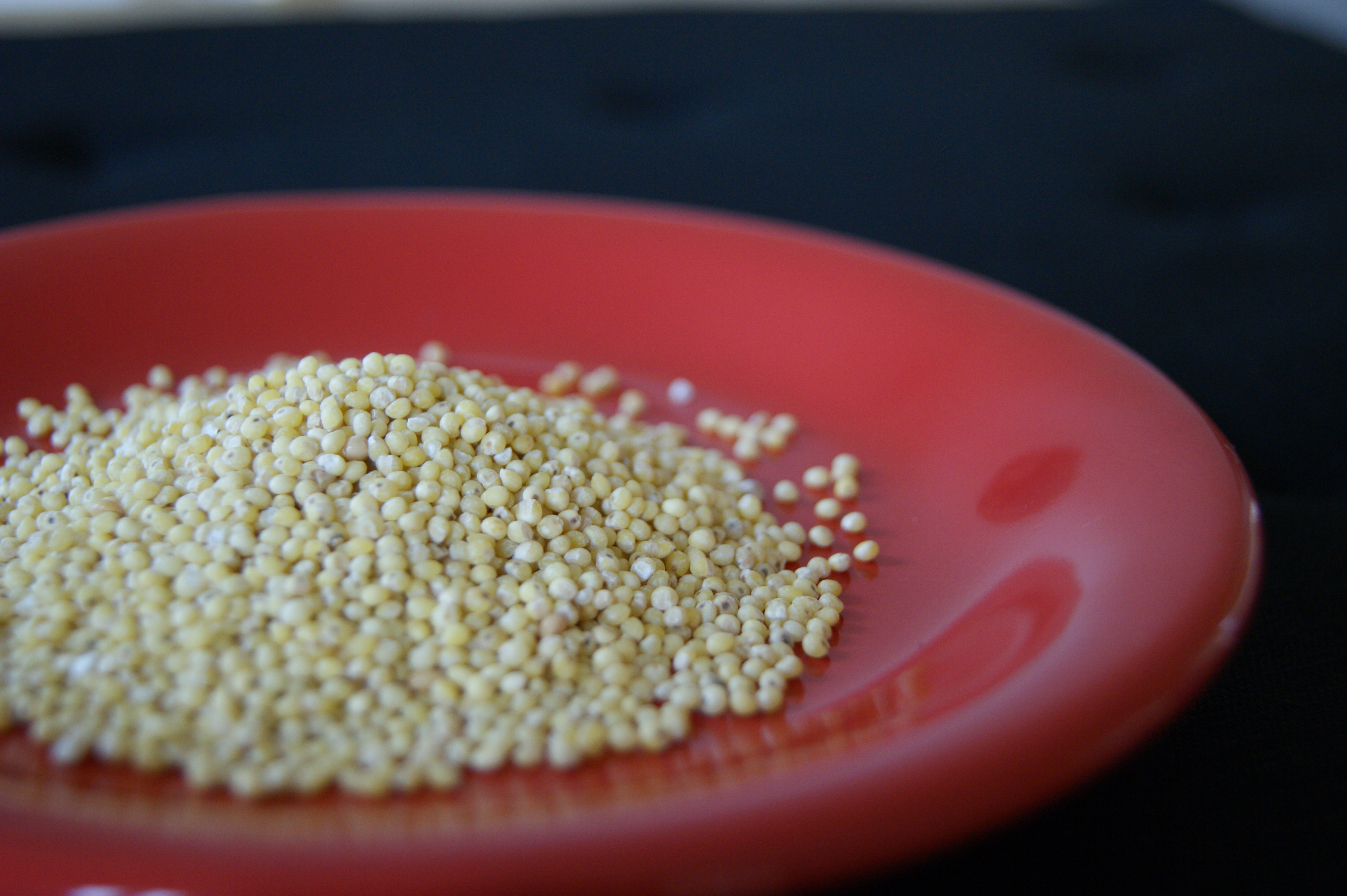 Millet